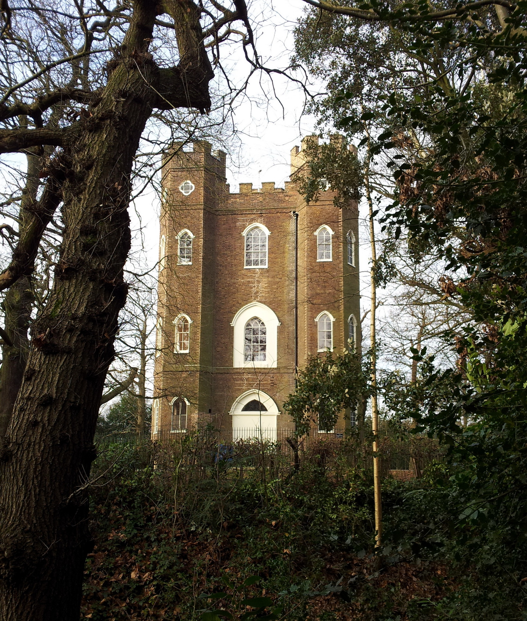 Severndroog Castle in Oxleas Wood, Shooter´s Hill, South East London.